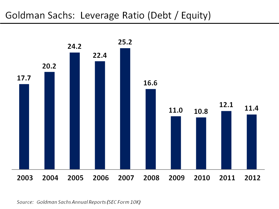 Bar chart showing the leverage ratio for Goldman-Sachs from 2003-2012. The leverage ratio (debt divided by equity) is a measure of the risk taken. The higher the ratio, the more risk undertaken.